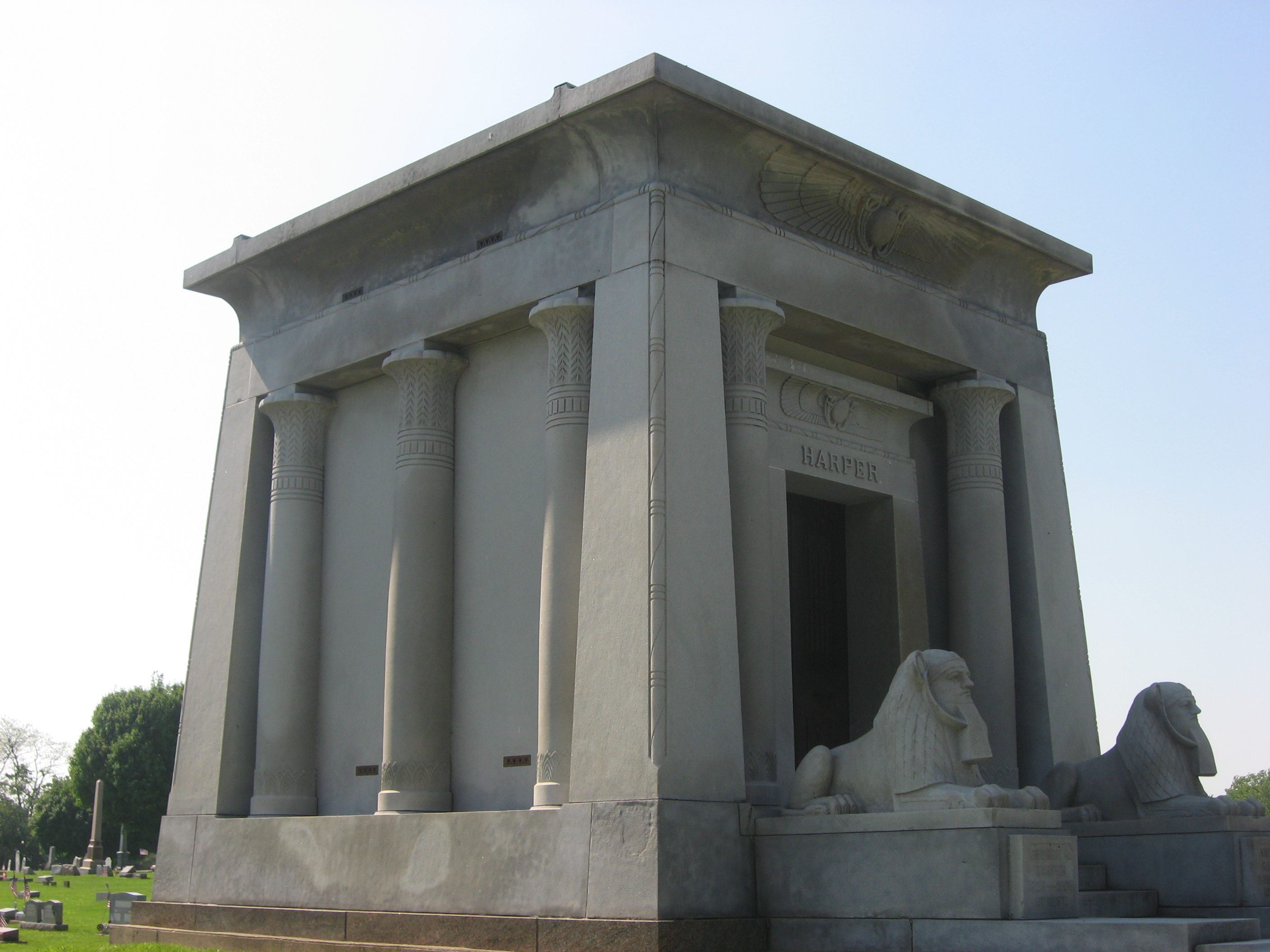 Front and southern side of the George W. Harper Mausoleum, located in the North Cemetery off State Route 72 in Cedarville, Ohio, United States. Built in 1915, it is listed on the National Register of Historic Places.